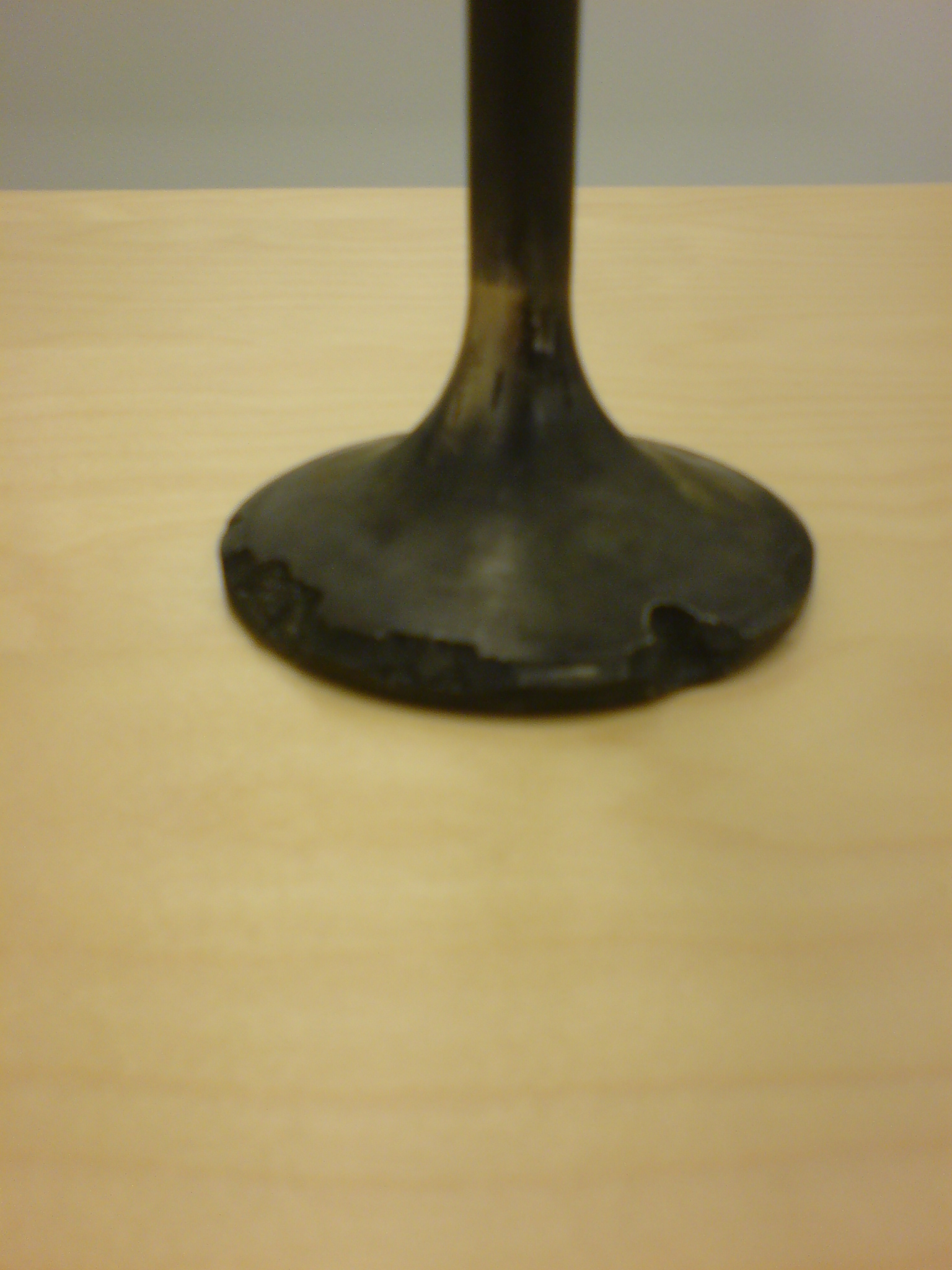 Exhaust gas valve from a marine engine subjected to massive wear